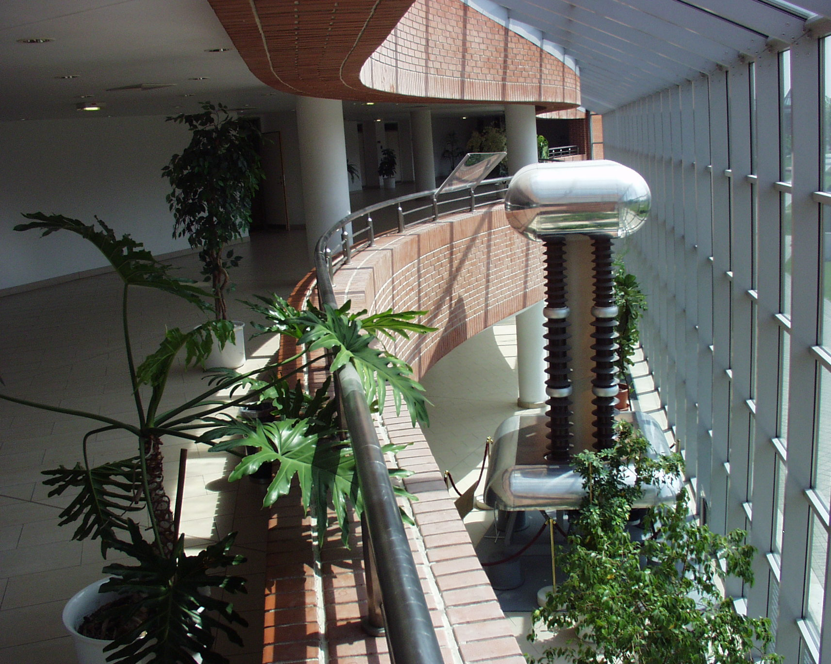 Van de Graaff generator of the first Hungarian linear particle accelerator. It achieved 700 kV in 1951 and 1000 kV in 1952. (Constructor: Simonyi Károly; Sopron, 1951.)